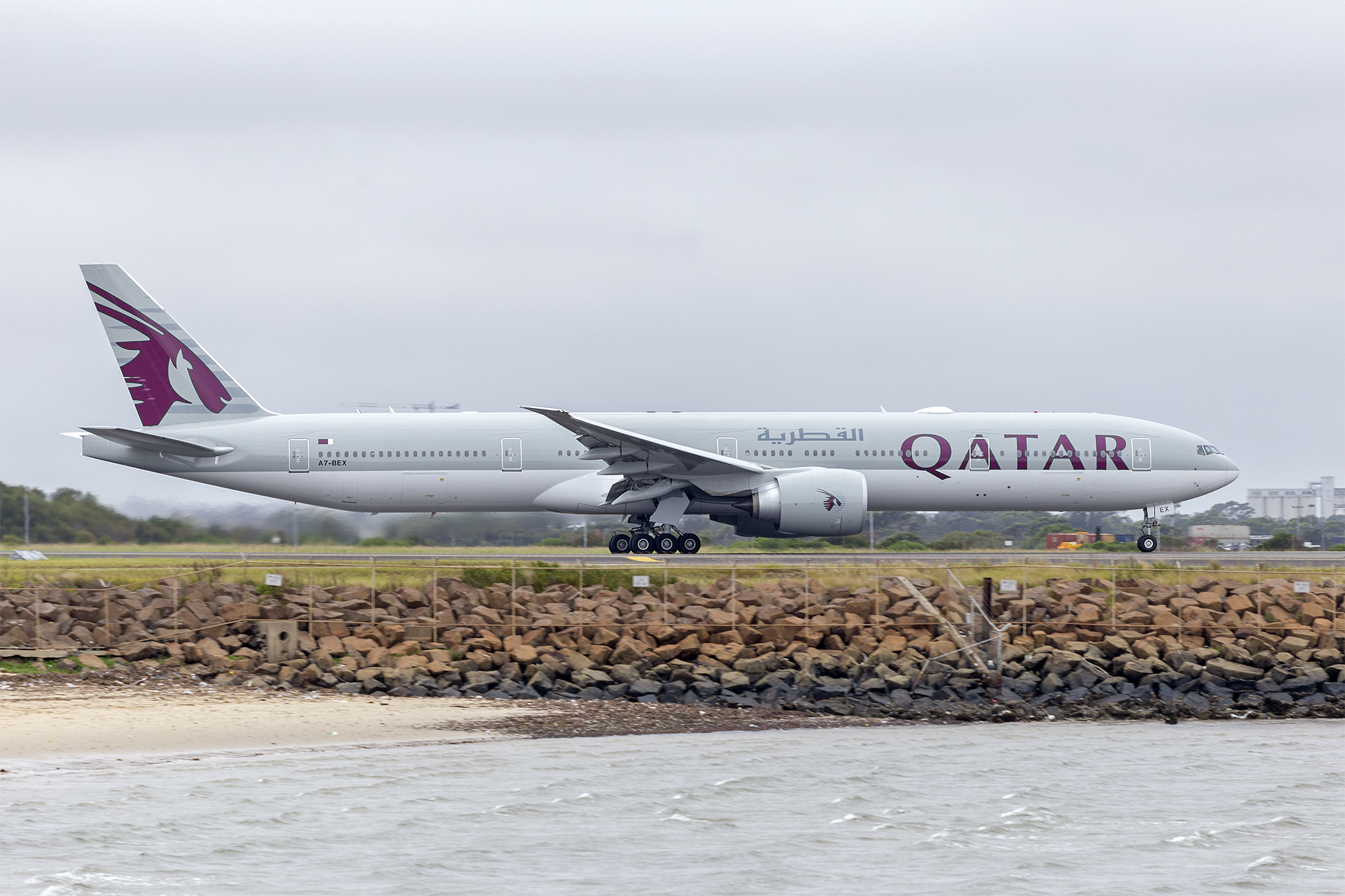 Qatar Airways (A7-BEX) Boeing 777-3DZ(ER) departing Sydney Airport